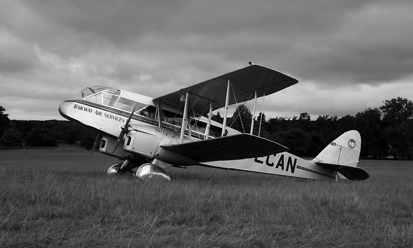 DH84 Dragon G-ECAN at Woburn Tiger Moth Rally 2007